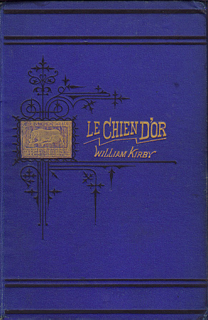 Frontpage of the book of William Kirby, The Chien d'Or / The Golden Dog : A Legend of Quebec. New York & Montréal : Lovell, Adam, Wesson & Company, 1877.